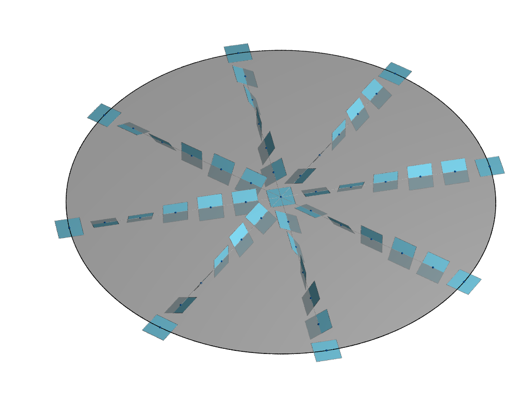 An overtwisted contact structure on R 3 {\displaystyle R^{3 with an overtwisted disk in grey